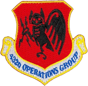 Emblem of the 432d Operations Group (ACC)